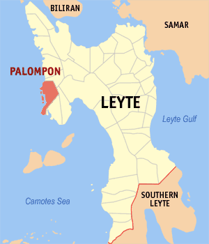 Map of Leyte showing the location of Palompon